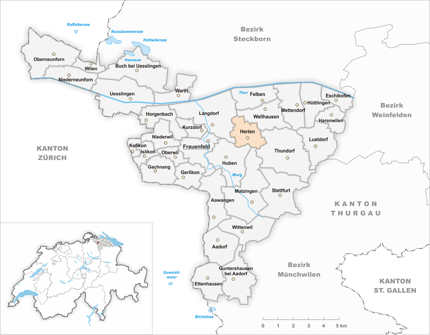 Municipality Herten